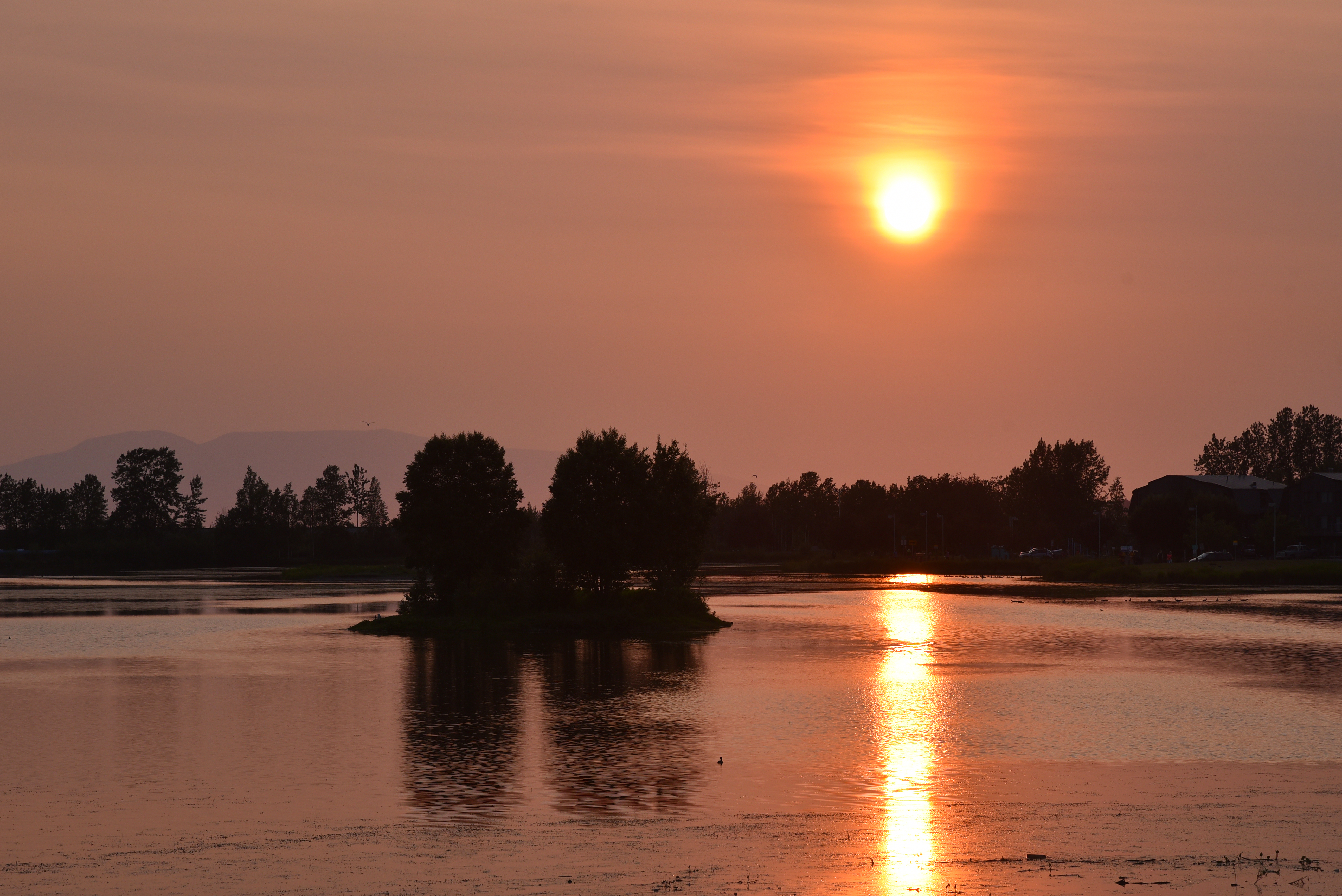 Westchester Lagoon is a man-made lake near downtown Anchorage, Alaska. Sleeping Lady is dimly visible on the left.